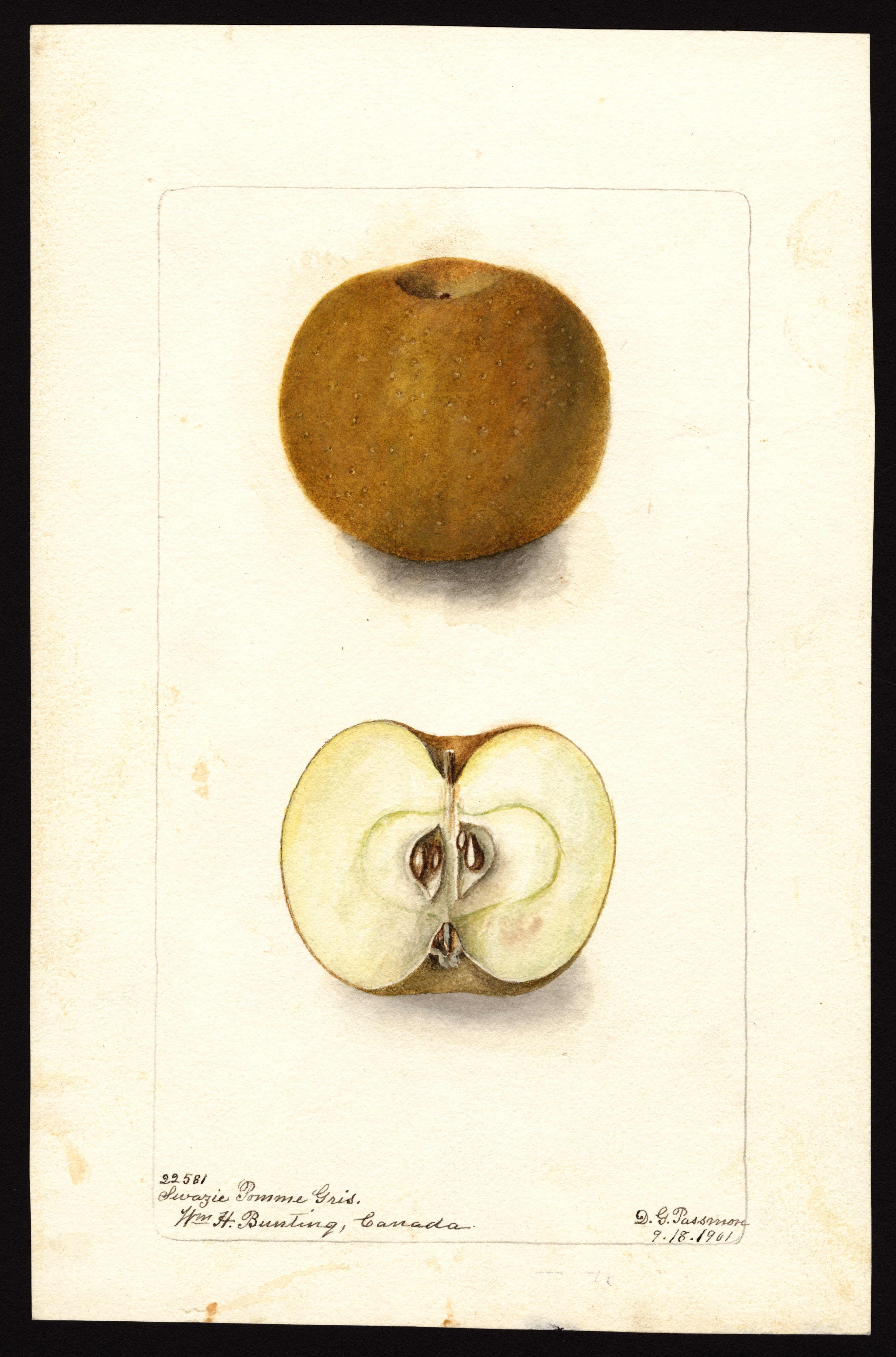 Image of the Swayzie Pomme Gris variety of apples (scientific name: Malus domestica), with this specimen originating in Canada. Source: U.S. Department of Agriculture Pomological Watercolor Collection. Rare and Special Collections, National Agricultural Library, Beltsville, MD 20705.